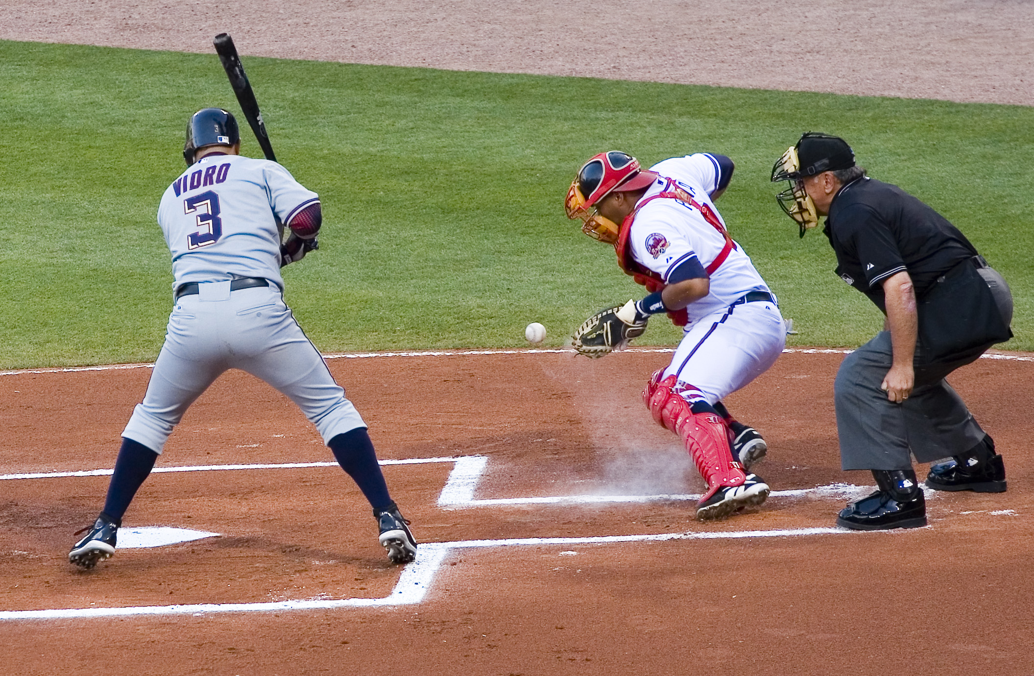 José Vidro (batter); Brayan Peña: Strike beim Spiel Atlanta Braves vs. Washington Nationals am 6. Juni 2006